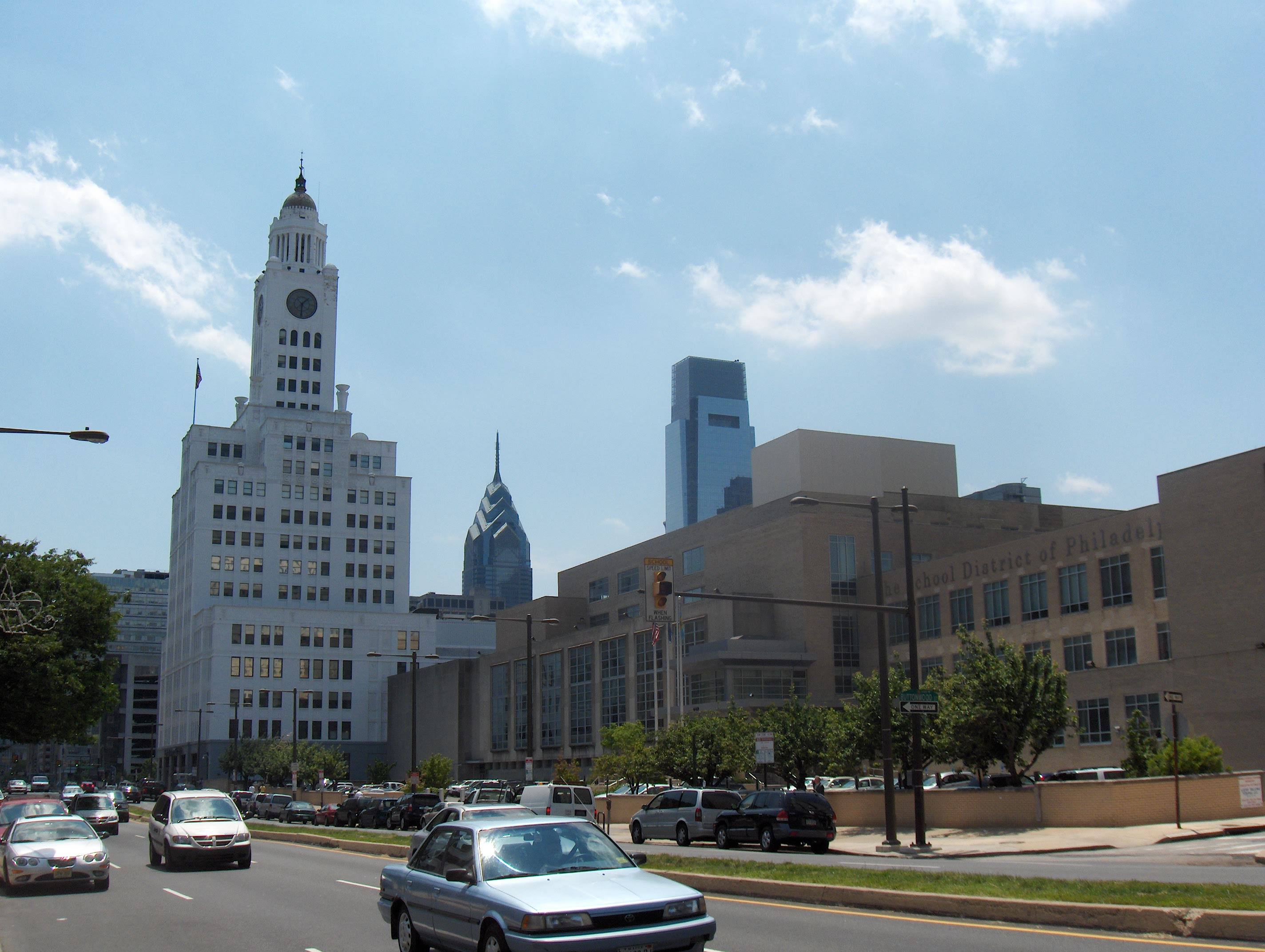 North Broad Street, Philadelphia, PA 19130, 400 block, looking south from south of Spring Garden Street towards City Hall, with the Philadelphia Inquirer building (1925) on the left-center, a Liberty Place tower and the Comcast Building in the distance, and the Philadelphia Board of Education Building in the foreground